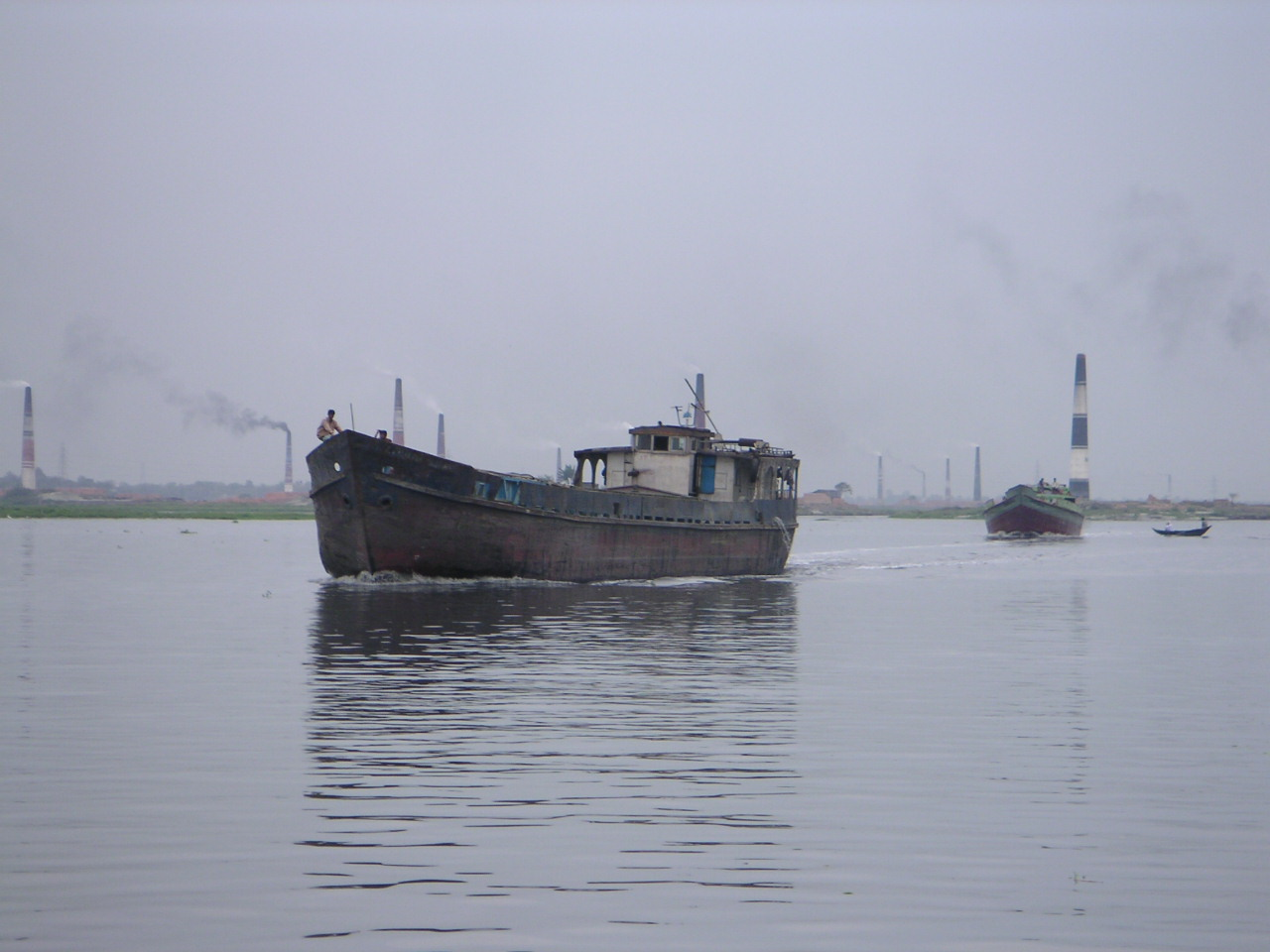 River near Dhaka. Photo: Soman